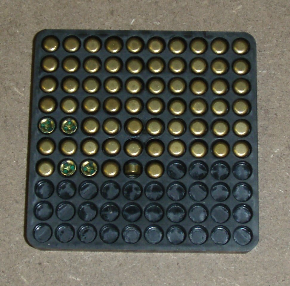 Ammunition primers in Large Rifle size for handloading